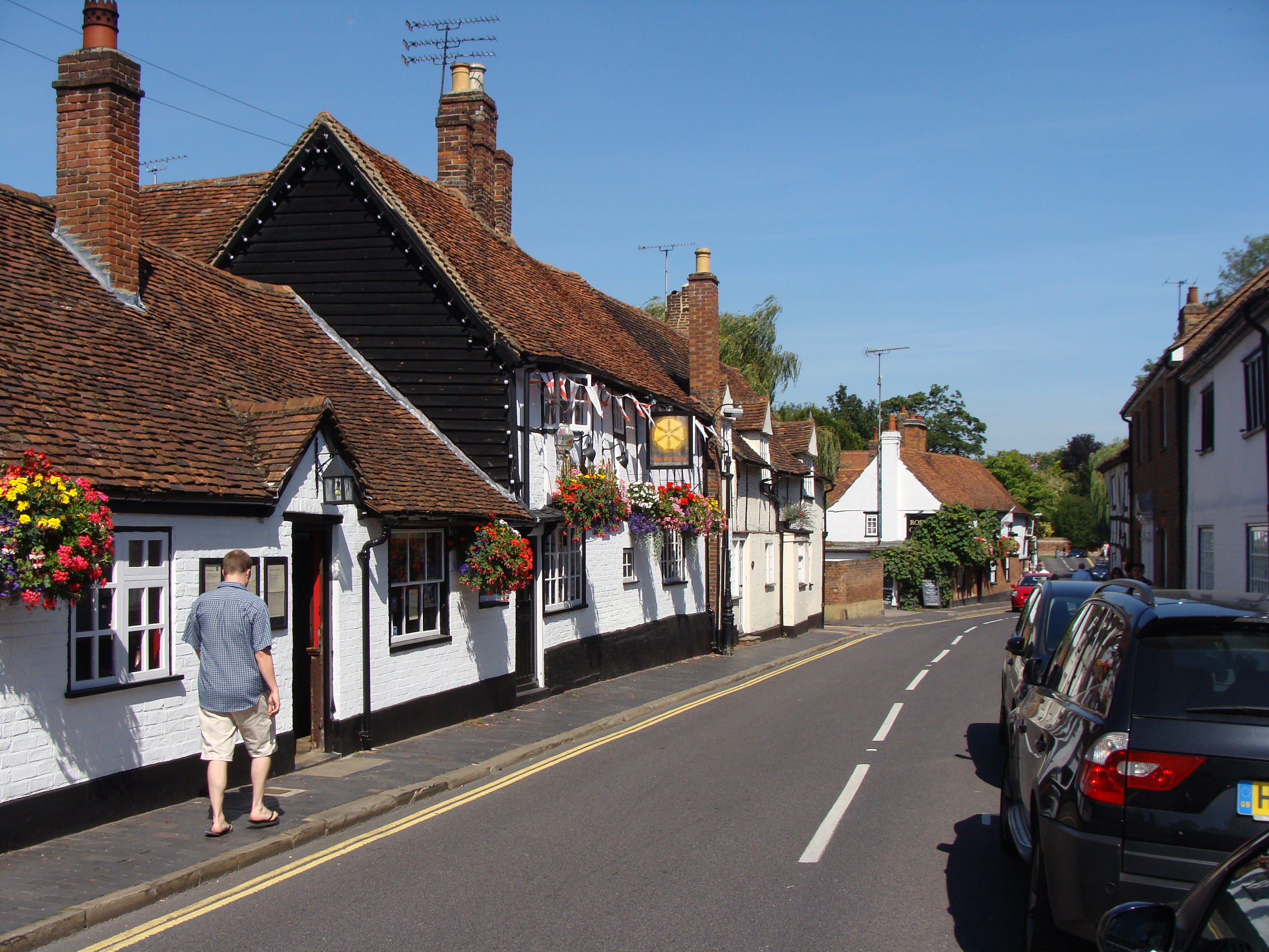 St Michaels Street, St Albans, with the Six Bells pub on the left.